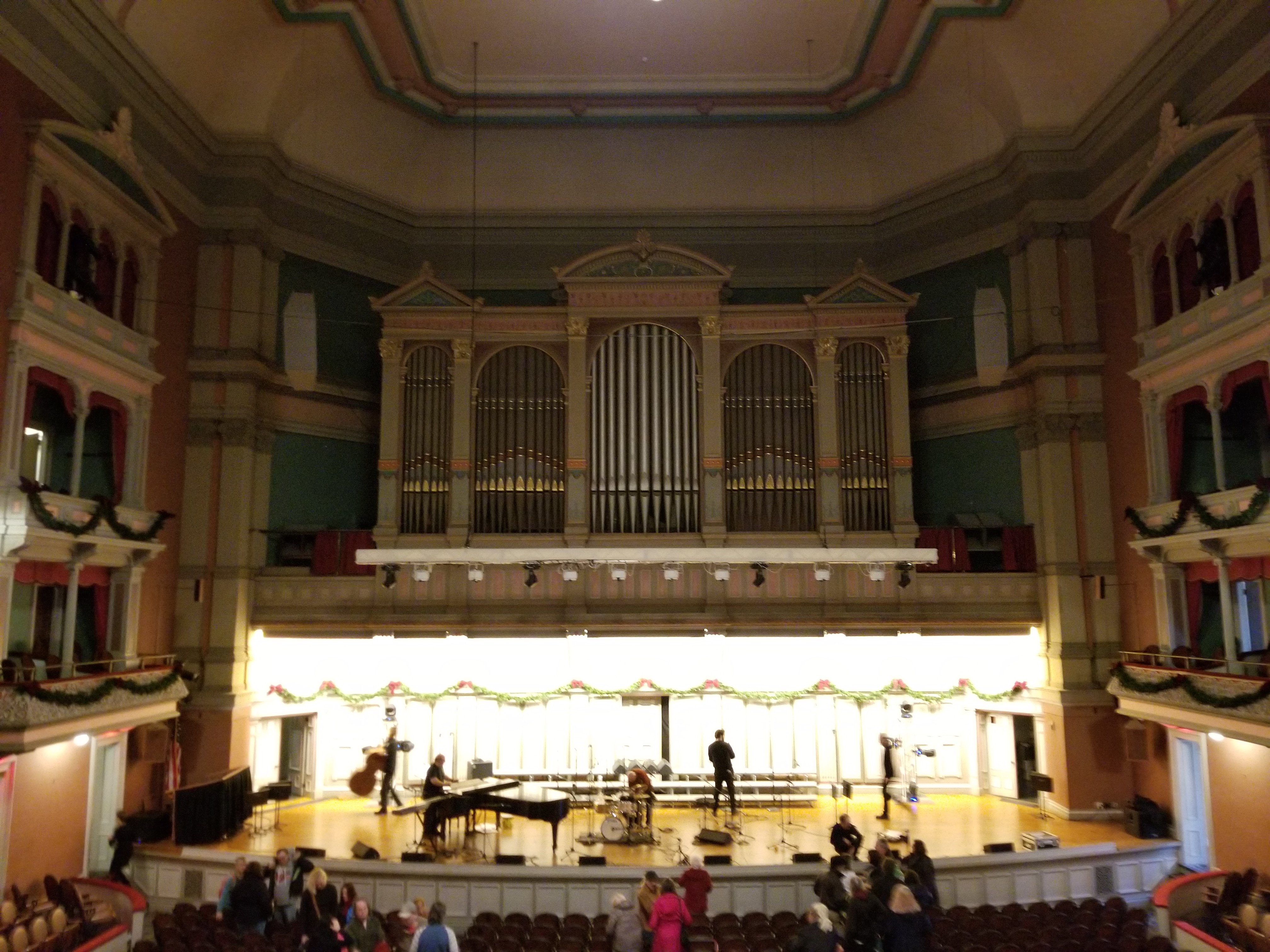 Image of the stage and organ at the Troy Savings Bank Music Hall from the seating area